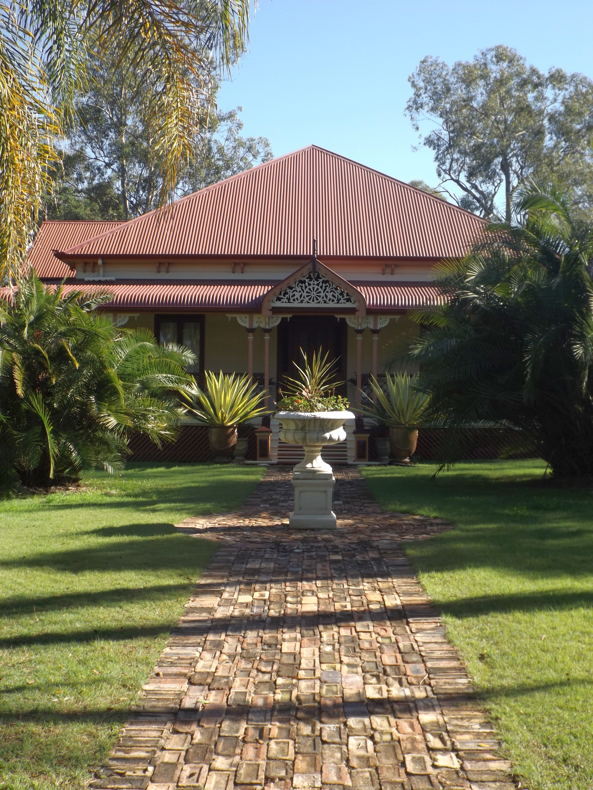 Photo of entrance to the house at 98 Mt Crosby Road, part of the Wright Family Houses at Tivoli, Ipswich Queensland, Australia.